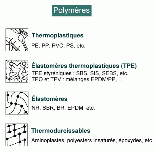 Types of polymers and their molecular structure.